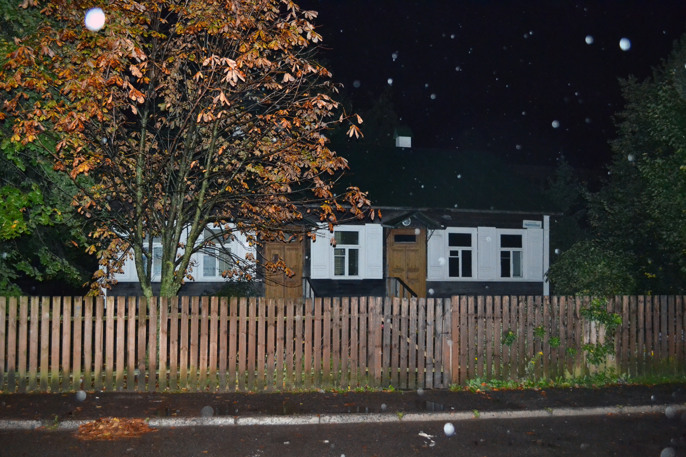 Беларуская (тарашкевіца): Дом, дзе жыў Зьмітрок Бядуля. г. Менск This is a photo of Belarusian heritage monument. Reference number: 713Д000218 ( WLM)